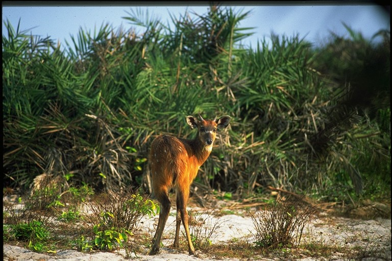 Sitatunga tragelaphus caugh in dune area gabon africa